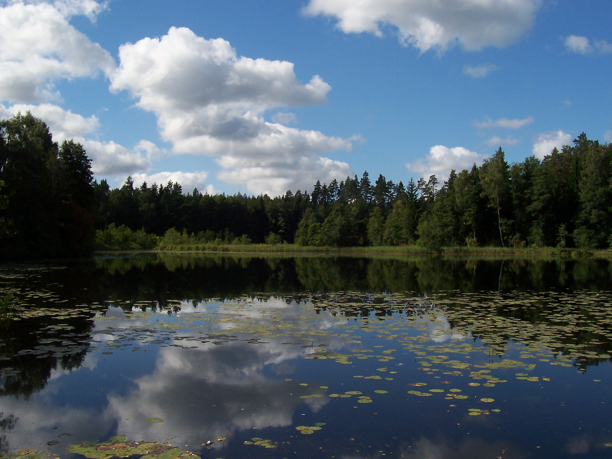 Creek near Swoboda lock at Augustowski Canal in Augustów, Poland.